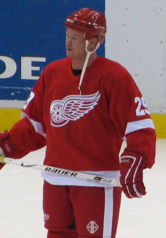 Photo of Jason Williams of the Detroit Red Wings